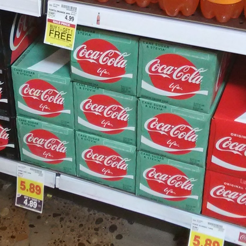 A stack of Coca-Cola 12 pack on a grocer shelf in April 2019 on store shelf in the United States